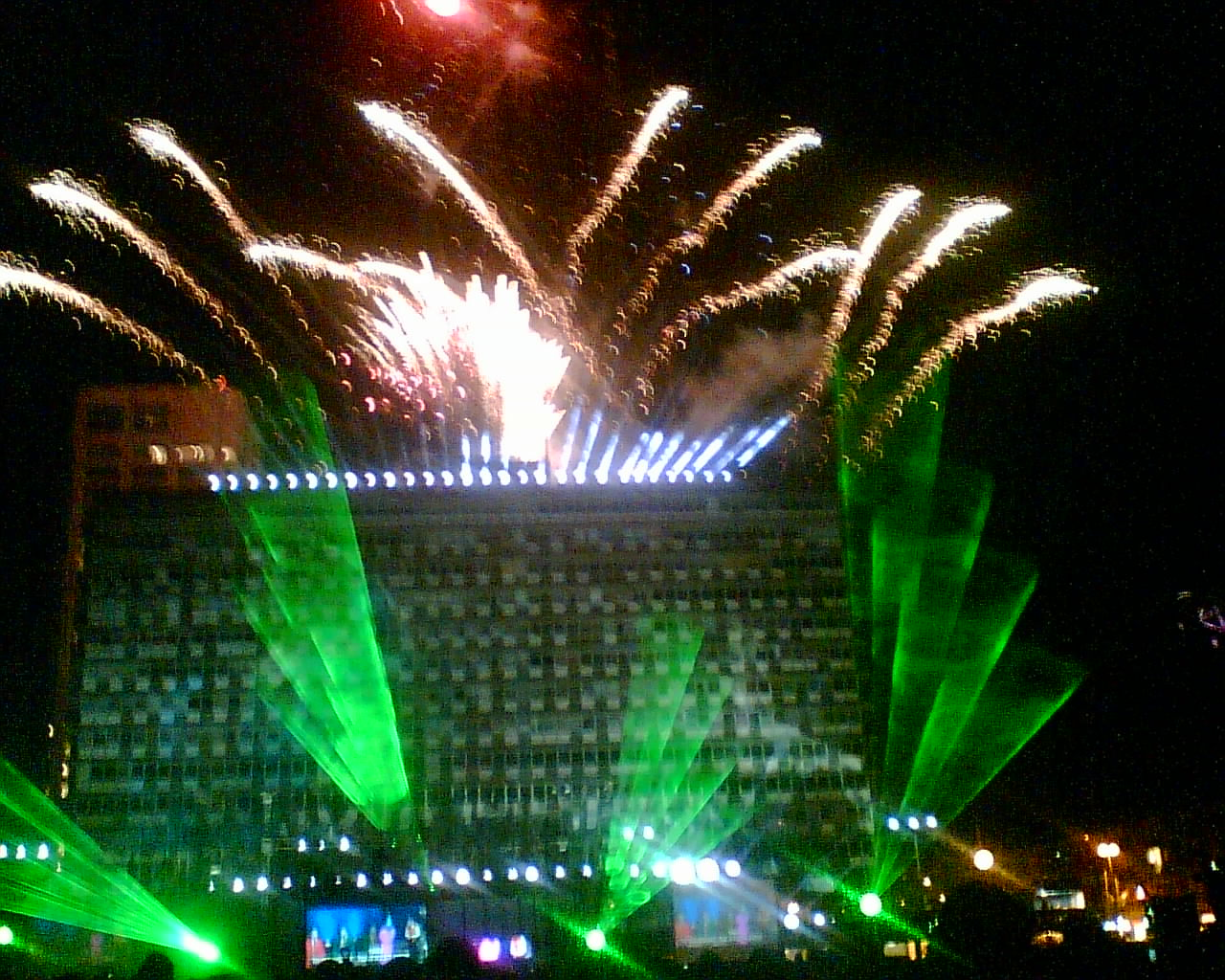 Fireworks and Laser effects on Israel's 60th Independence Day, Rabin Square, Tel Aviv